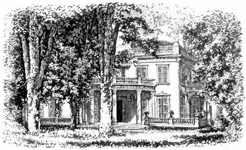 Drawing of Montgomery Place, a mansion built near Barrytown, New York, by Continental Army Major General Richard Montgomery.